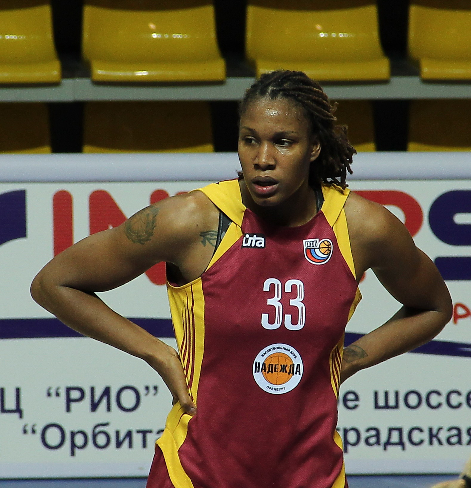 Russia, Vologda, Rebekkah Brunson in game «Vologda-Chevakata» vs «Nadezhda» (Orenburg)